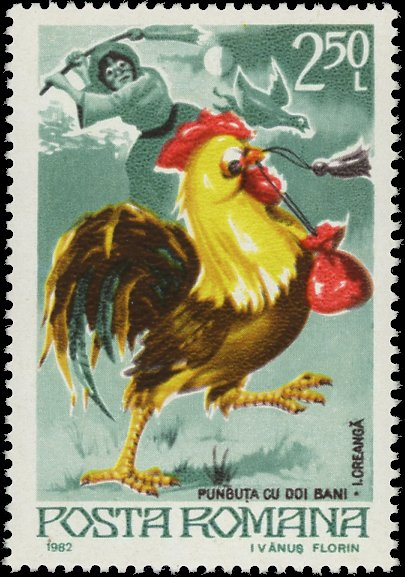 The Little Bag with Two Coins Inside